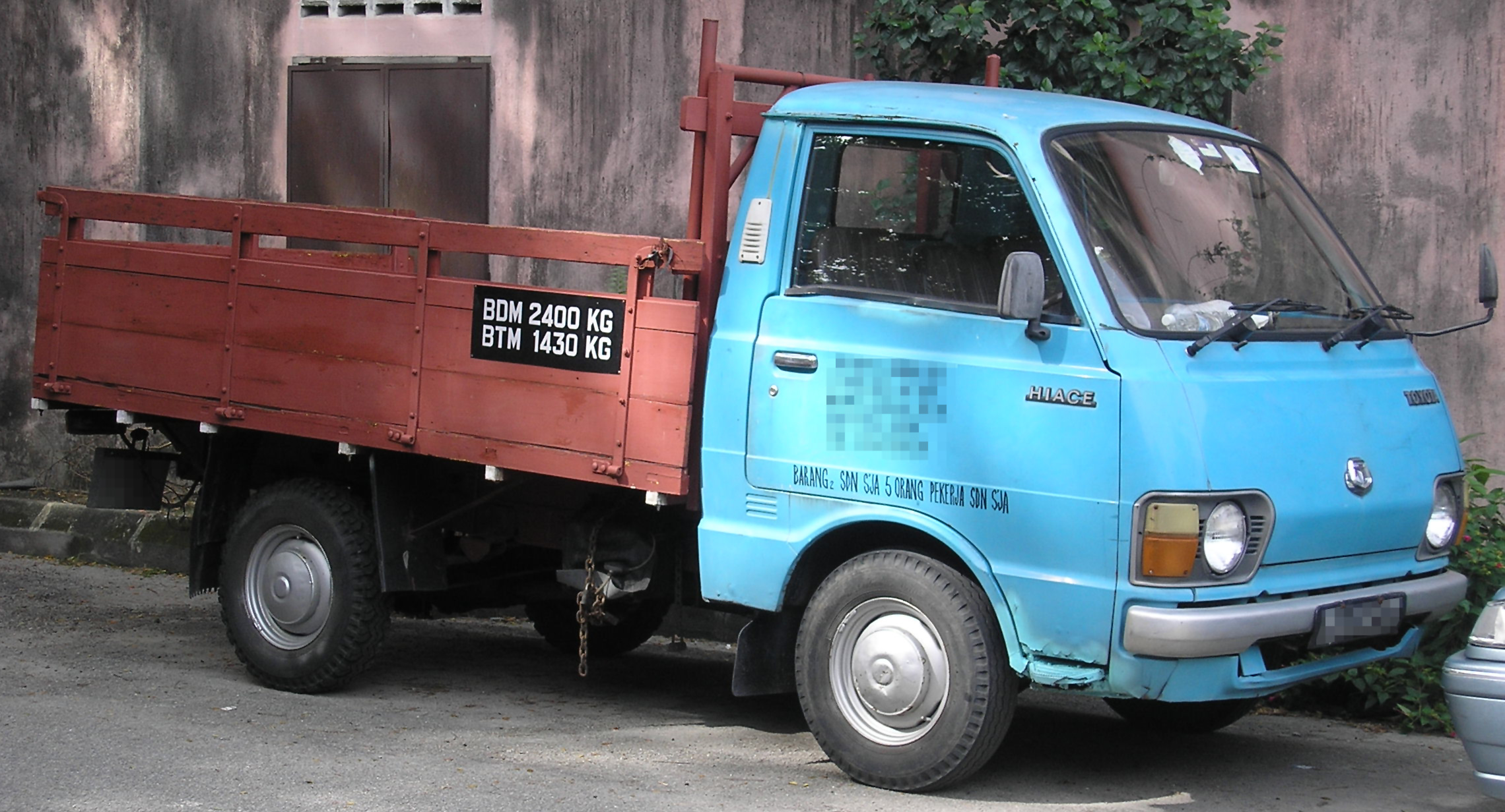 Front quarter view of a second generation Toyota Hiace pickup, in Sentul, Kuala Lumpur, Malaysia.